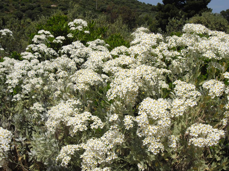 Tanacetum ptarmiciflorum 'Silver Feather'